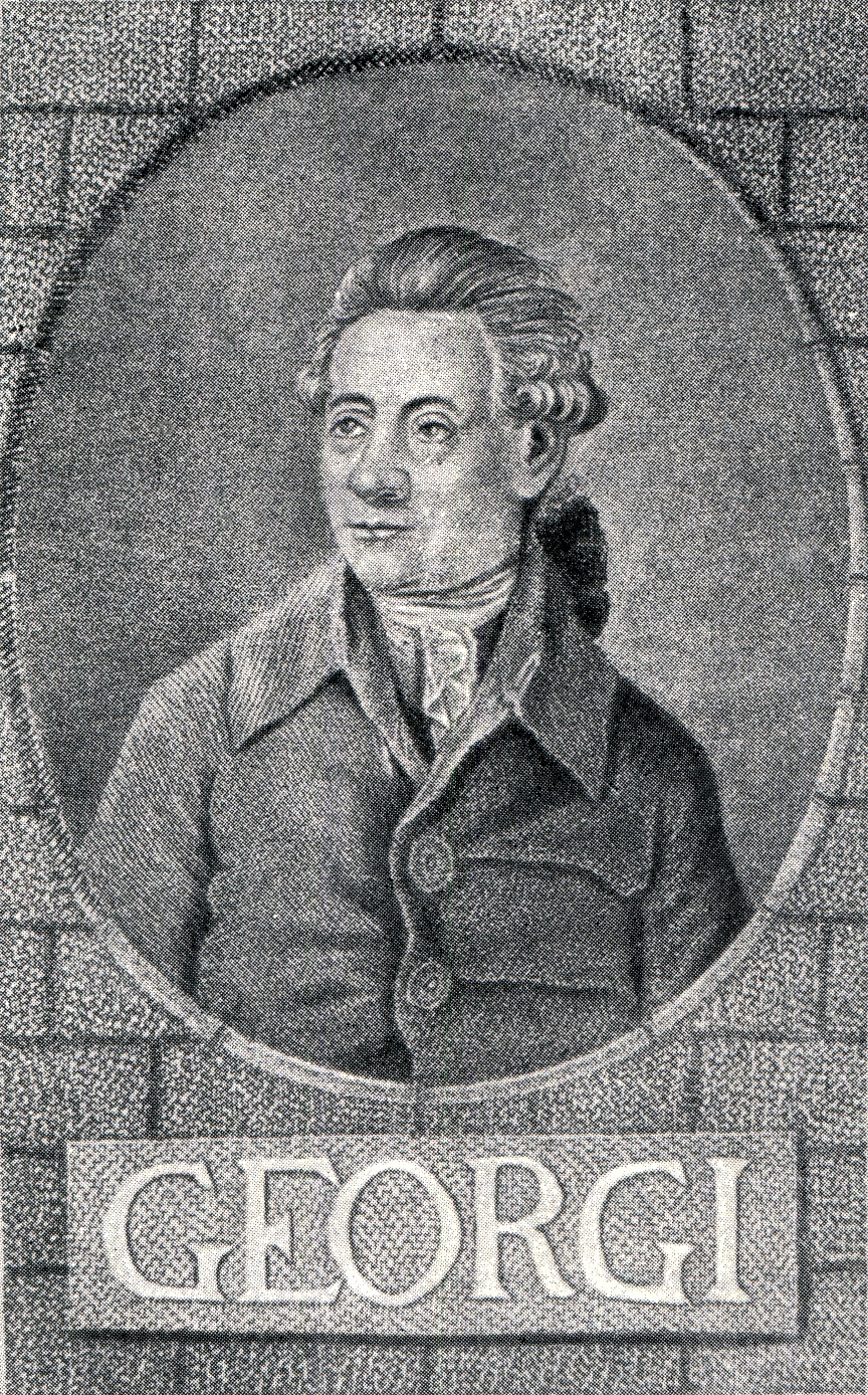 Johann Gottlieb Georgi (1729–1802). German chemist, explorer, naturalist and geographer